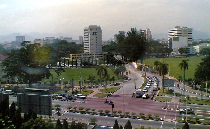 The view of Ipoh skyline from Tun Abdul Razak Library